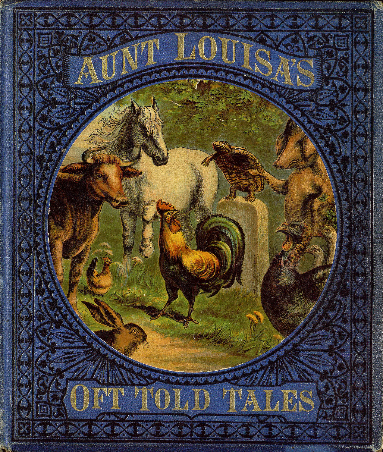 A scan of the book Aunt Louisa's Oft Told Tales.